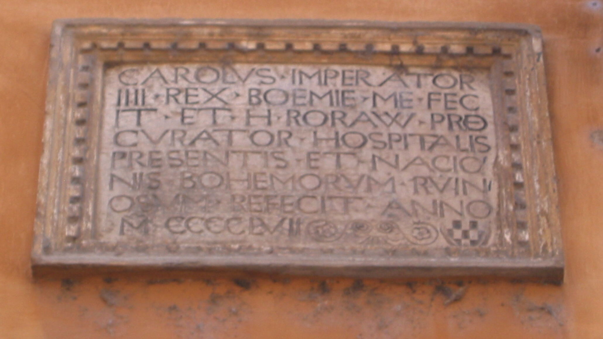 Inscription commemorating Czech Pilgrimhouse in Rome (1457) (via dei Banchi vecchi, 130) Česky: nápis připomínající obnovu českého pouního domu v Římě